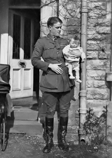 England: Major Roy Cecil Phillipps MC & Bar DFC with his daughter, Helen. The caption written under this photo reads "Roy and Helen in England. What a cross cat she looks!".